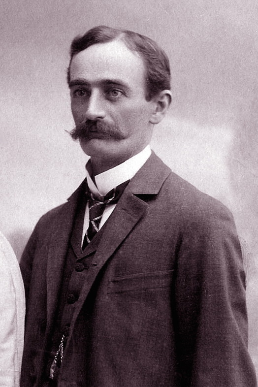 This image is believed to be of Elisabeth and Friedrich Trump, who emigrated to the United States and would become Donald Trump's grandparents. They are pictured here in 1902.